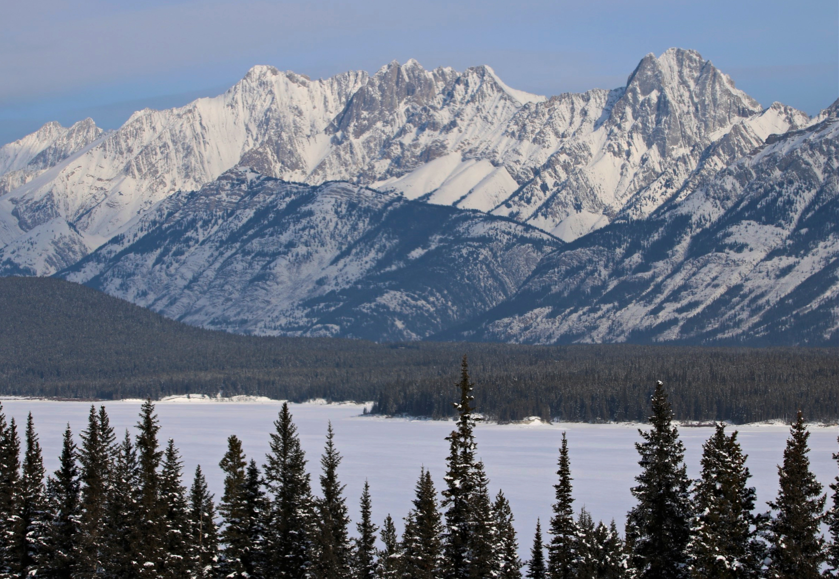 Mounts Evan-Thomas, Packenham, Brock in the Opal Range of Kananaskis Country, Alberta Canada